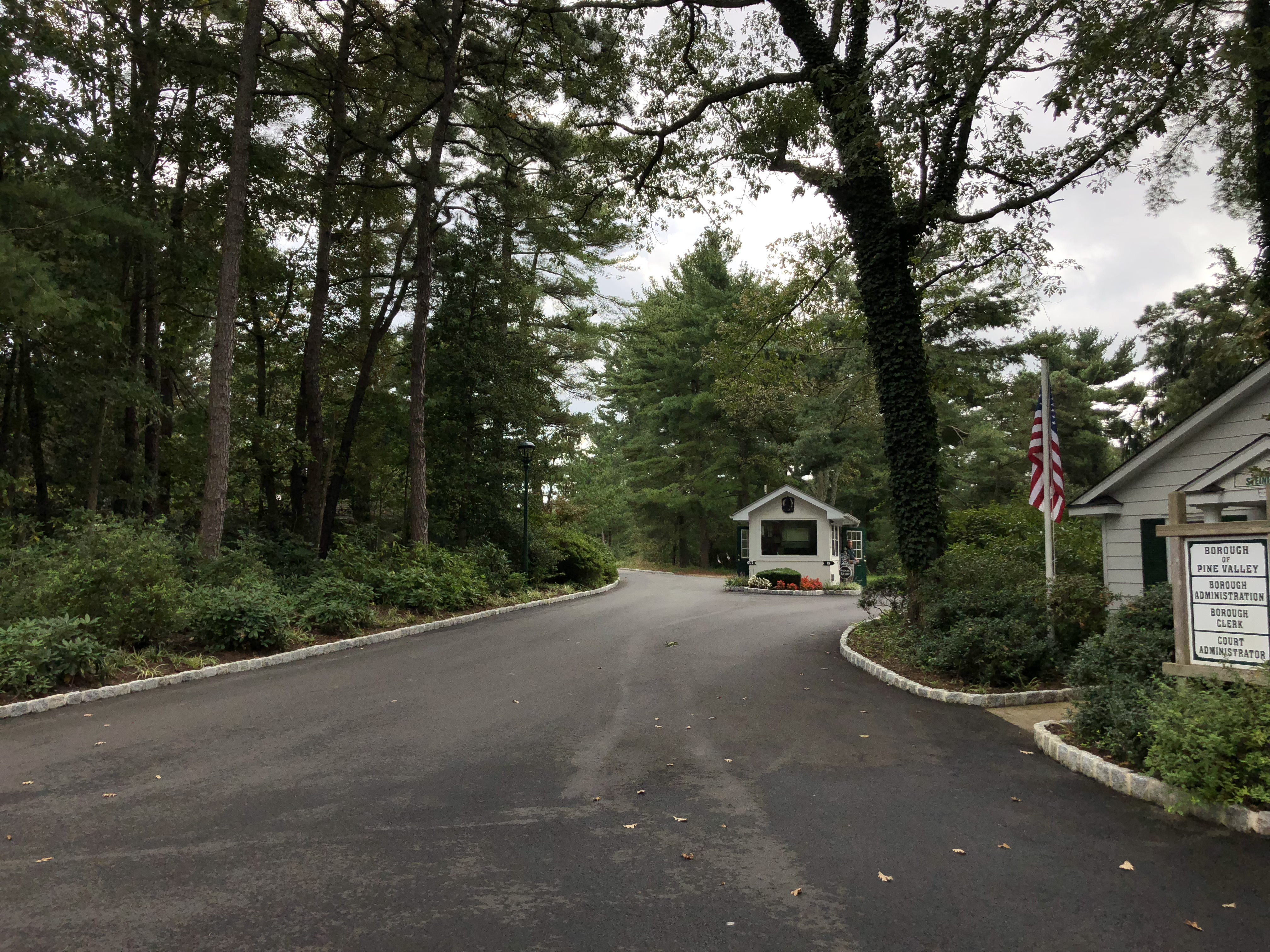 View southeast along Club Road at Atlantic Avenue in Pine Valley, Camden County, New Jersey